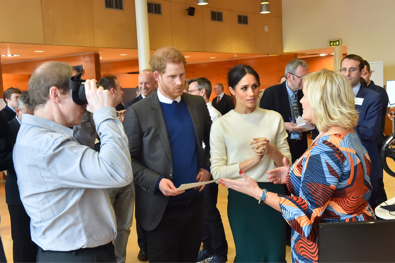 During their first visit to Northern Ireland on 23 March 2018, Prince Harry and Ms. Markle visited Catalyst Inc. An independent, non-profit organisation which works to build a community of innovators in Northern Ireland, providing the home, support and networks to nurture innovators and entrepreneurs to aim higher and succeed faster. The visit saw talented individuals from across Northern Ireland showcase their products and inventions to Prince Harry and Ms. Markle, talking them through the entrepreneurial journey - from the original idea through to the final product.